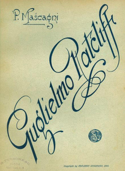 Cover of the libretto of the opera Guglielmo Ratcliff by Mascagni, first edition 1895